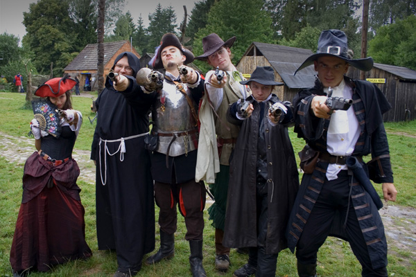 Hardkon_888 - LARP players dressed in a stylish, XVII century costumes